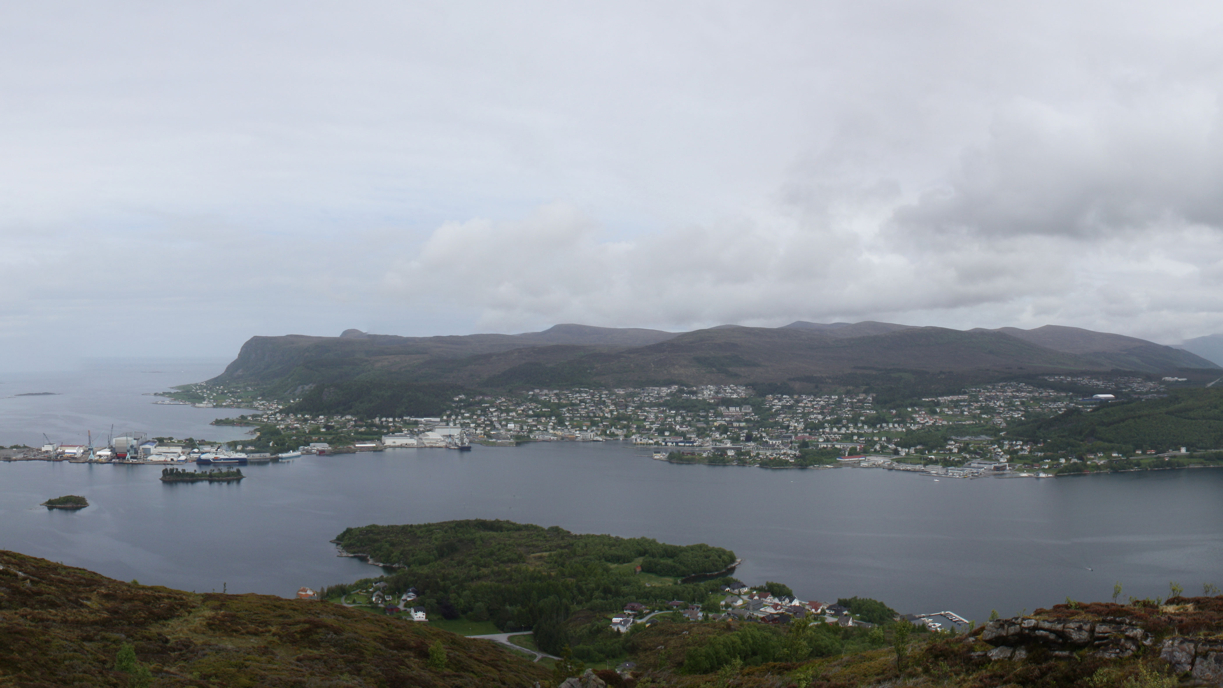 Ulsteinvik city seen from Høgåsen peak on the Dimna island.